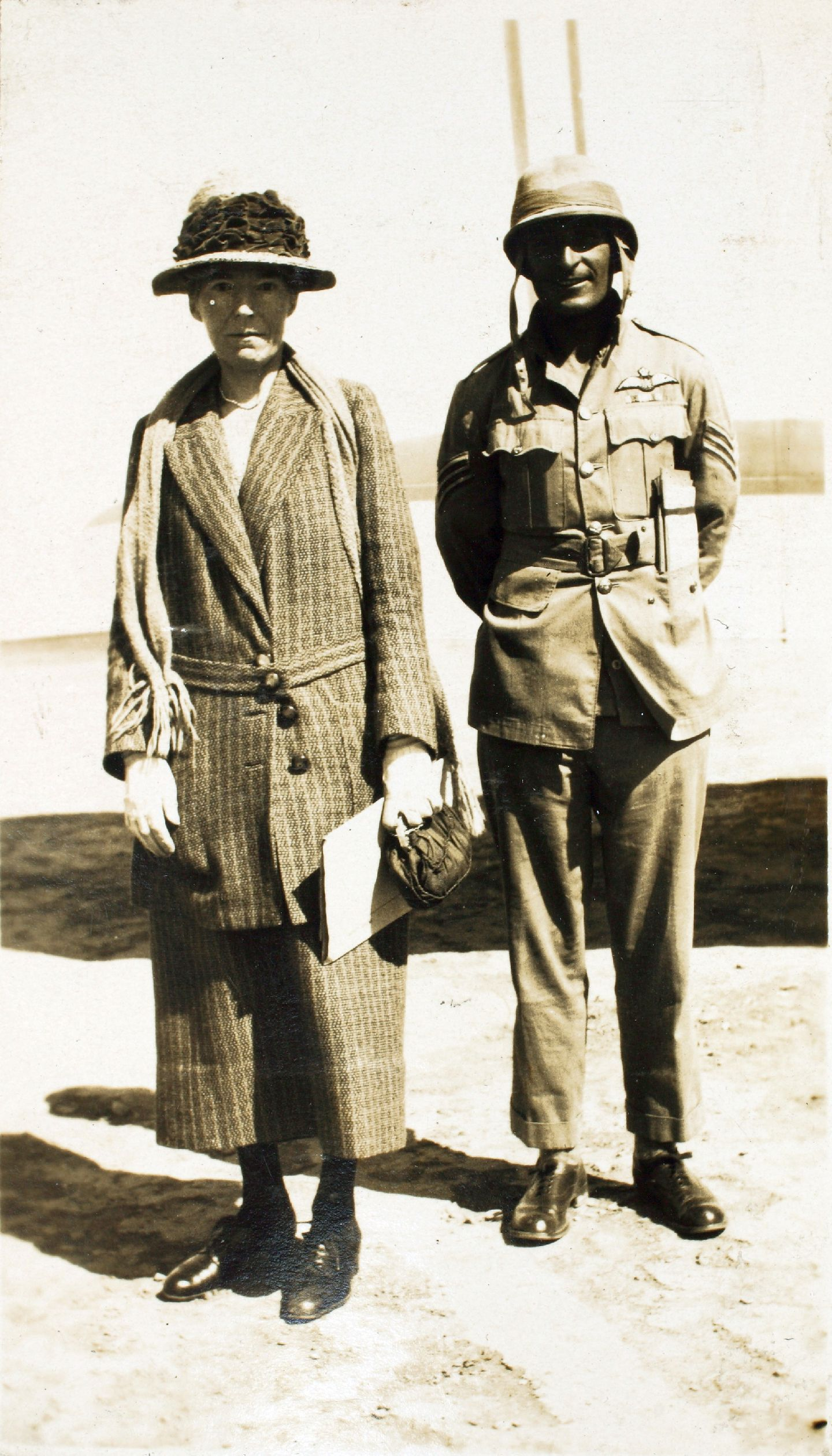 Sgt. Reeves. A.F.M. Miss Gertrude Bell Catalog #: Iraq_00086 Collection: Edwin Newman Album Album #: AL4-B Page #: 17 Picture on Page: 3 Description : Sgt. Reeves. A.F.M. Miss Gertrude Bell Repository: San Diego Air and Space Museum Archive